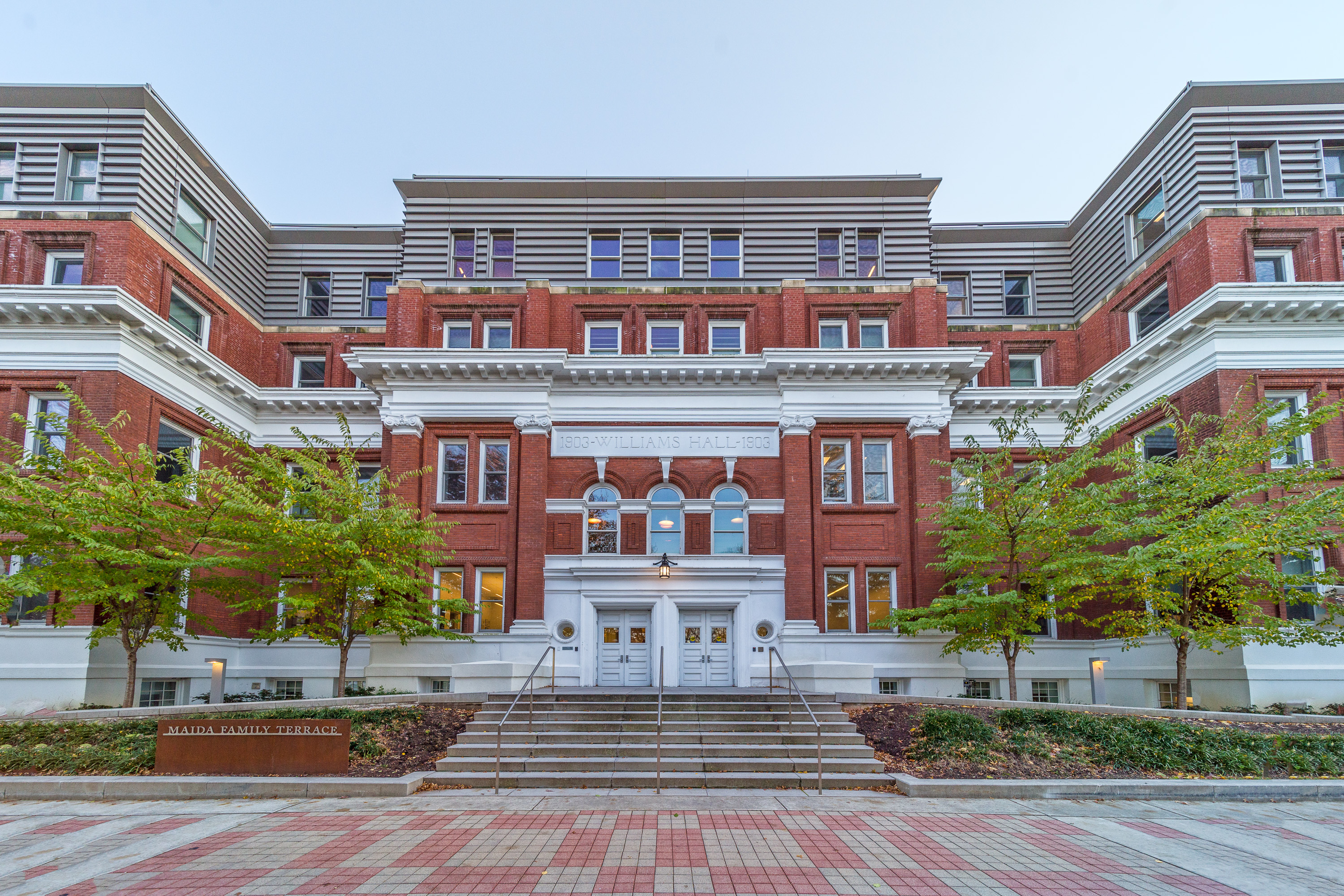 Lehigh University Williams Hall (1904)